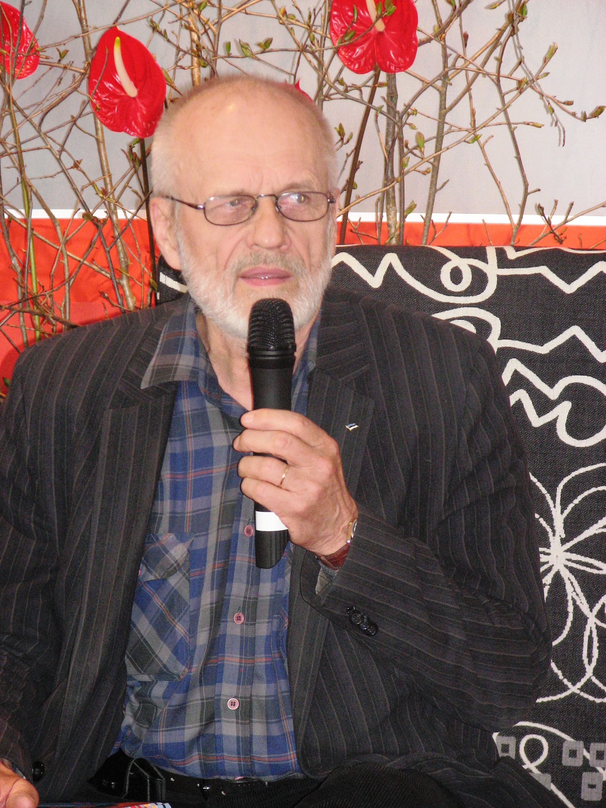 Jüri Arrak performing in Baltic Book Fair